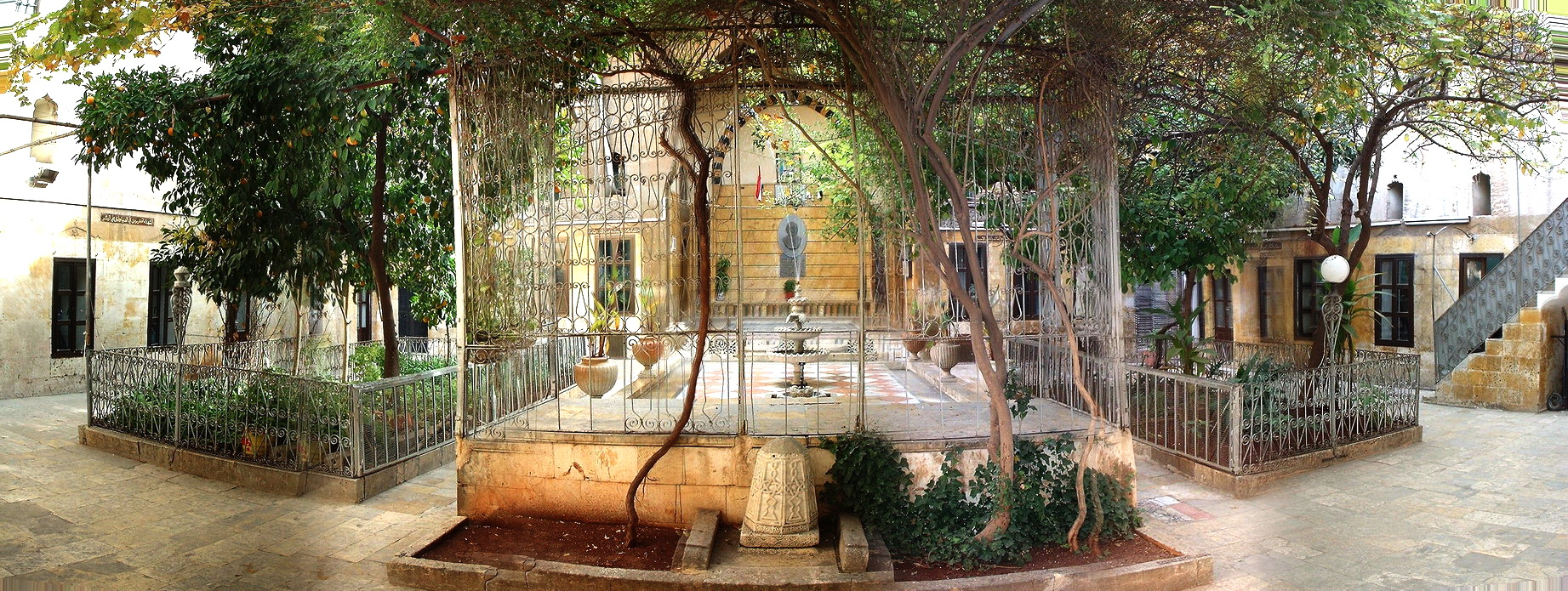 Cilician (Giligian) Armenian high School in Aleppo, the elementary section